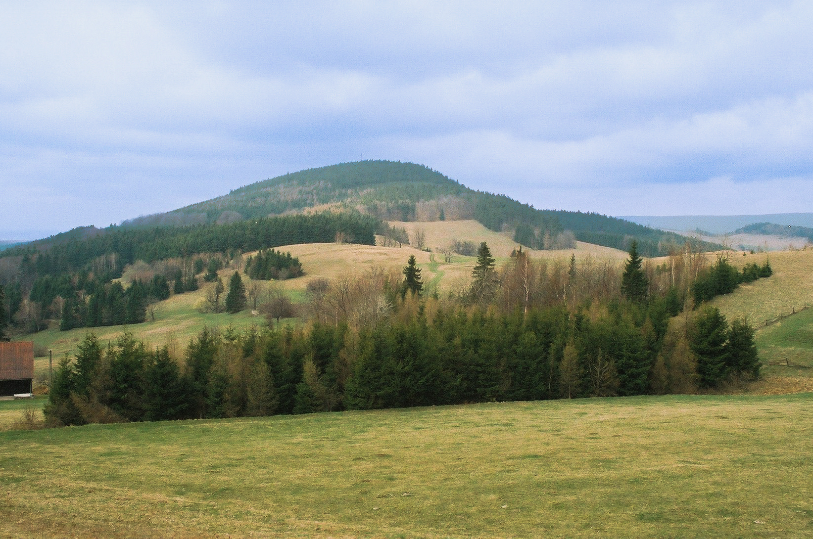 Grodczyn and halo is epic, the highest mountain in Lewin Hills (Wzgórza Lewińskie), Middle Sudetes, Poland